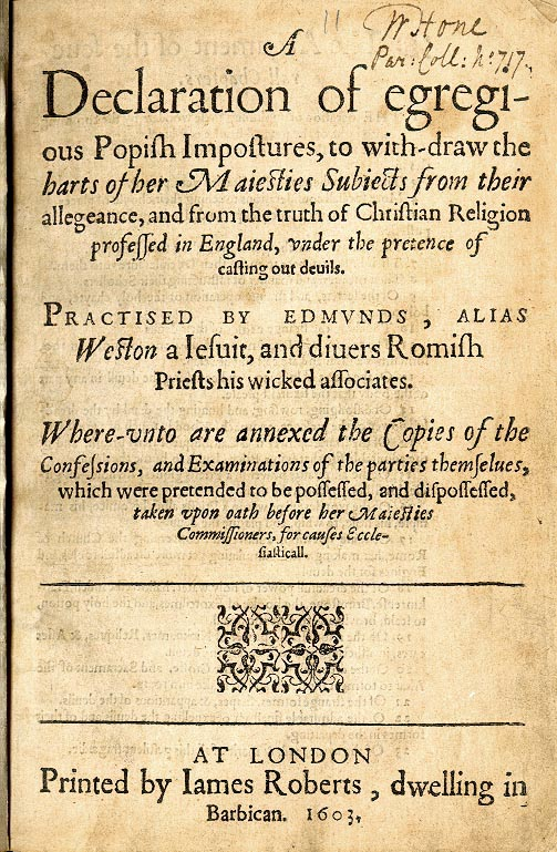 Title page of A Declaration of egregious Popish Impostures